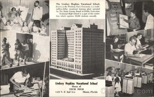 Working Man's University